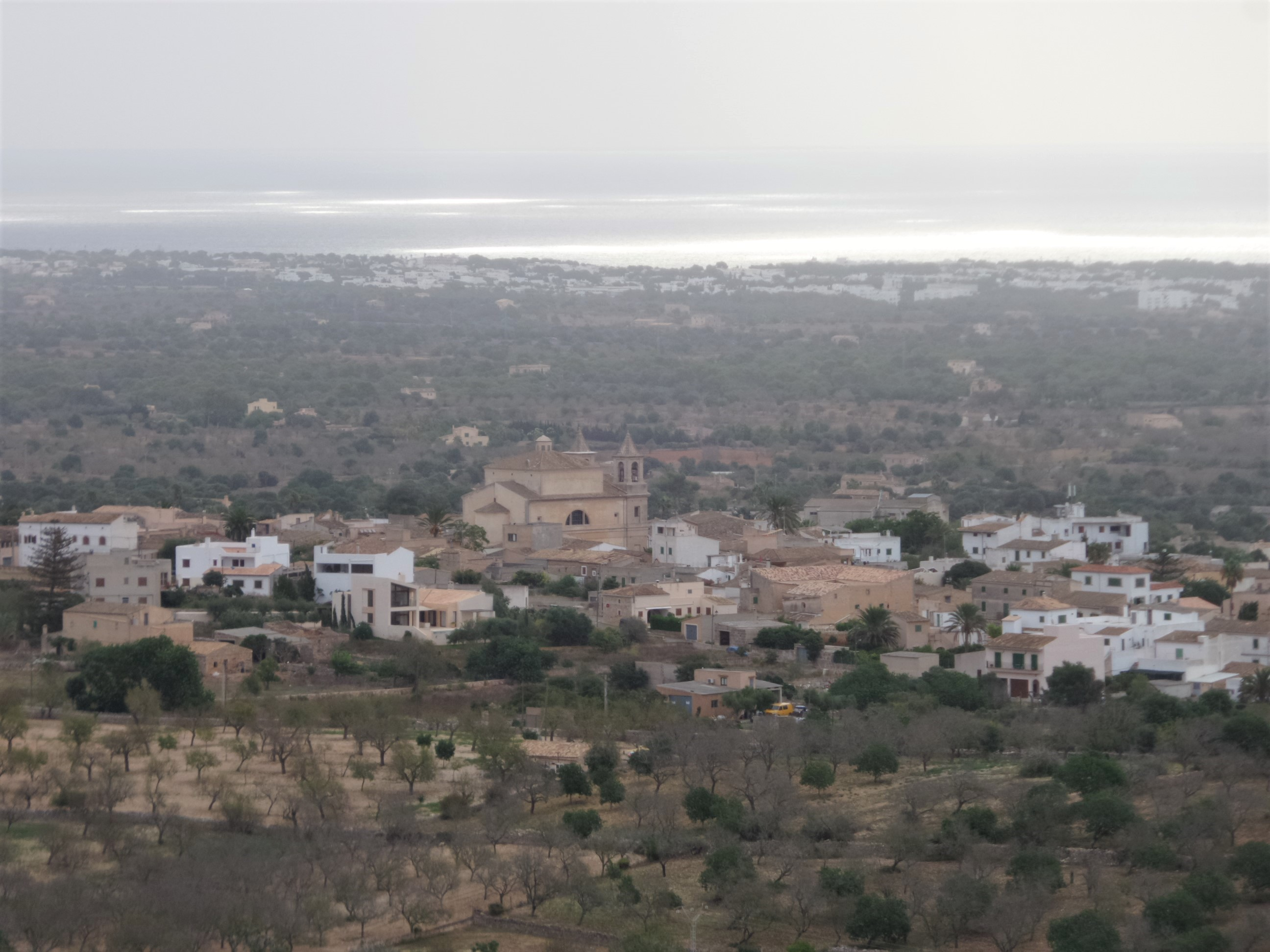 S’Alqueria Blanca